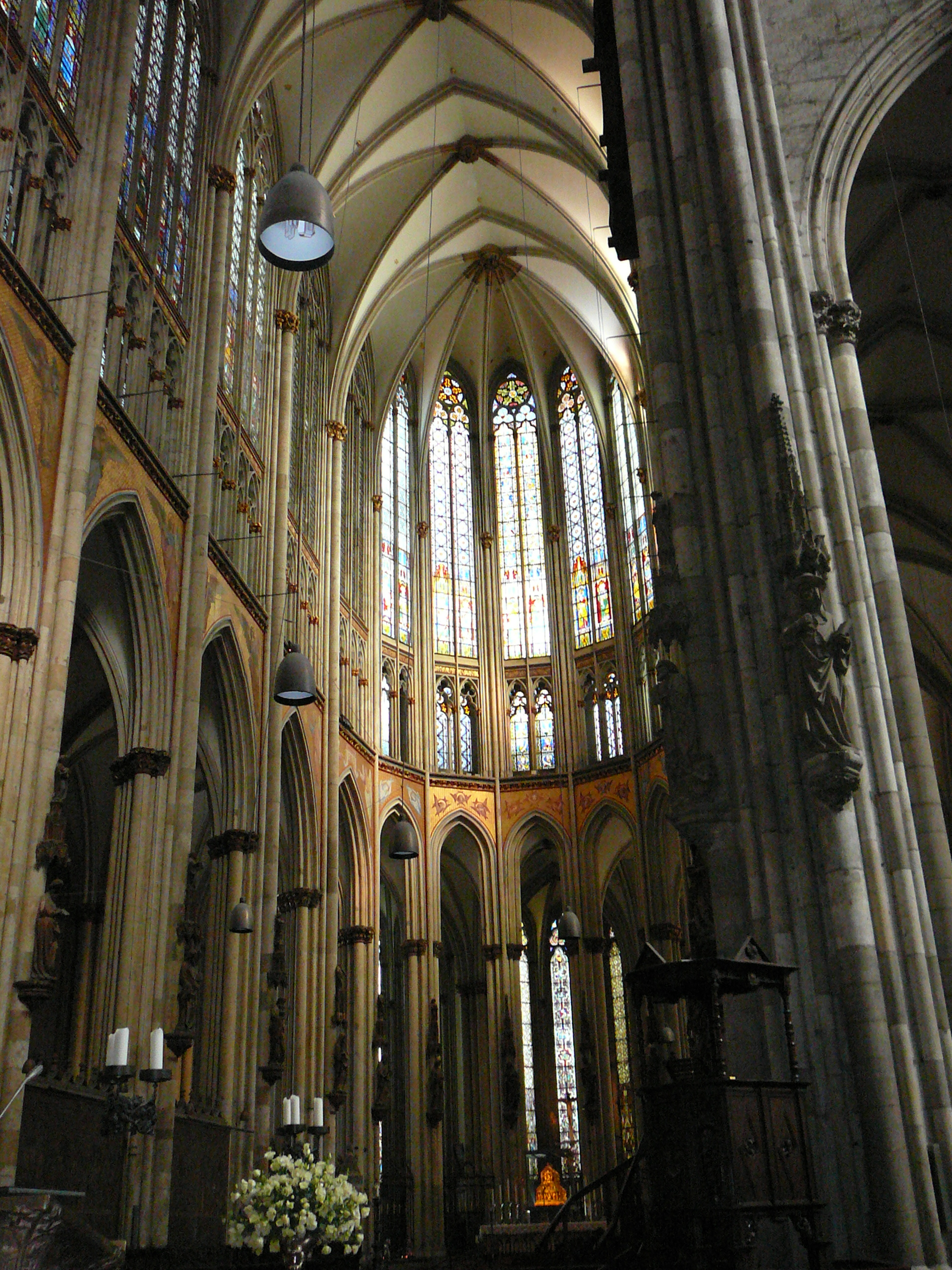 The Rayonnant Gothic choir and apse of Cologne Cathedral